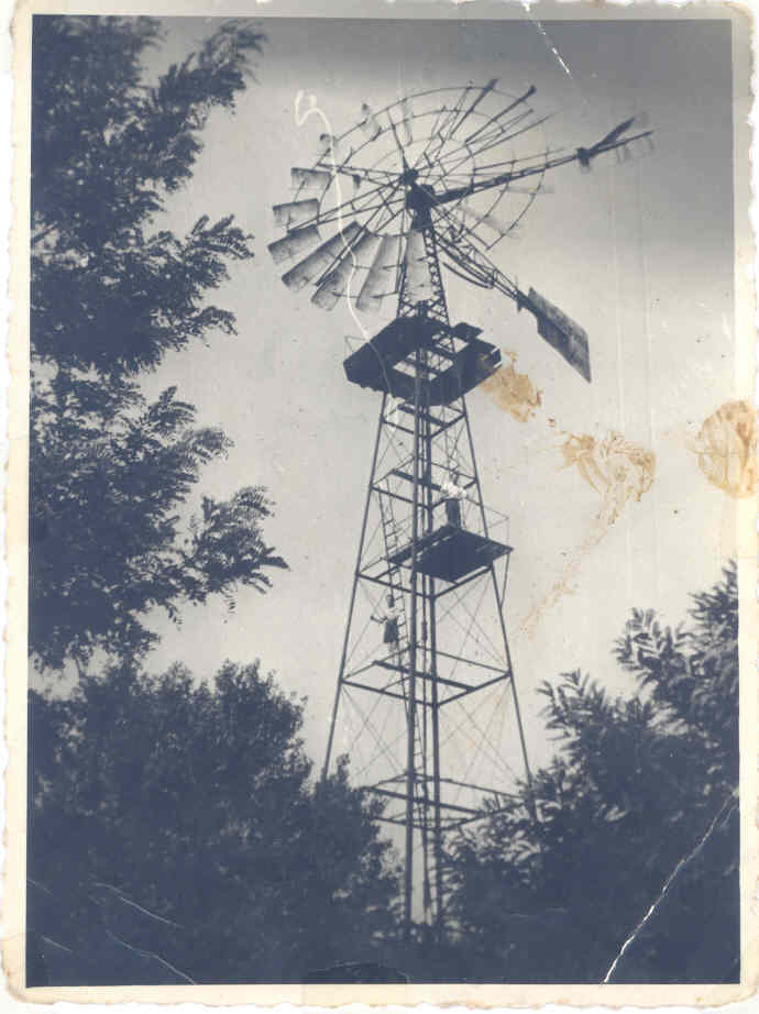 Susara